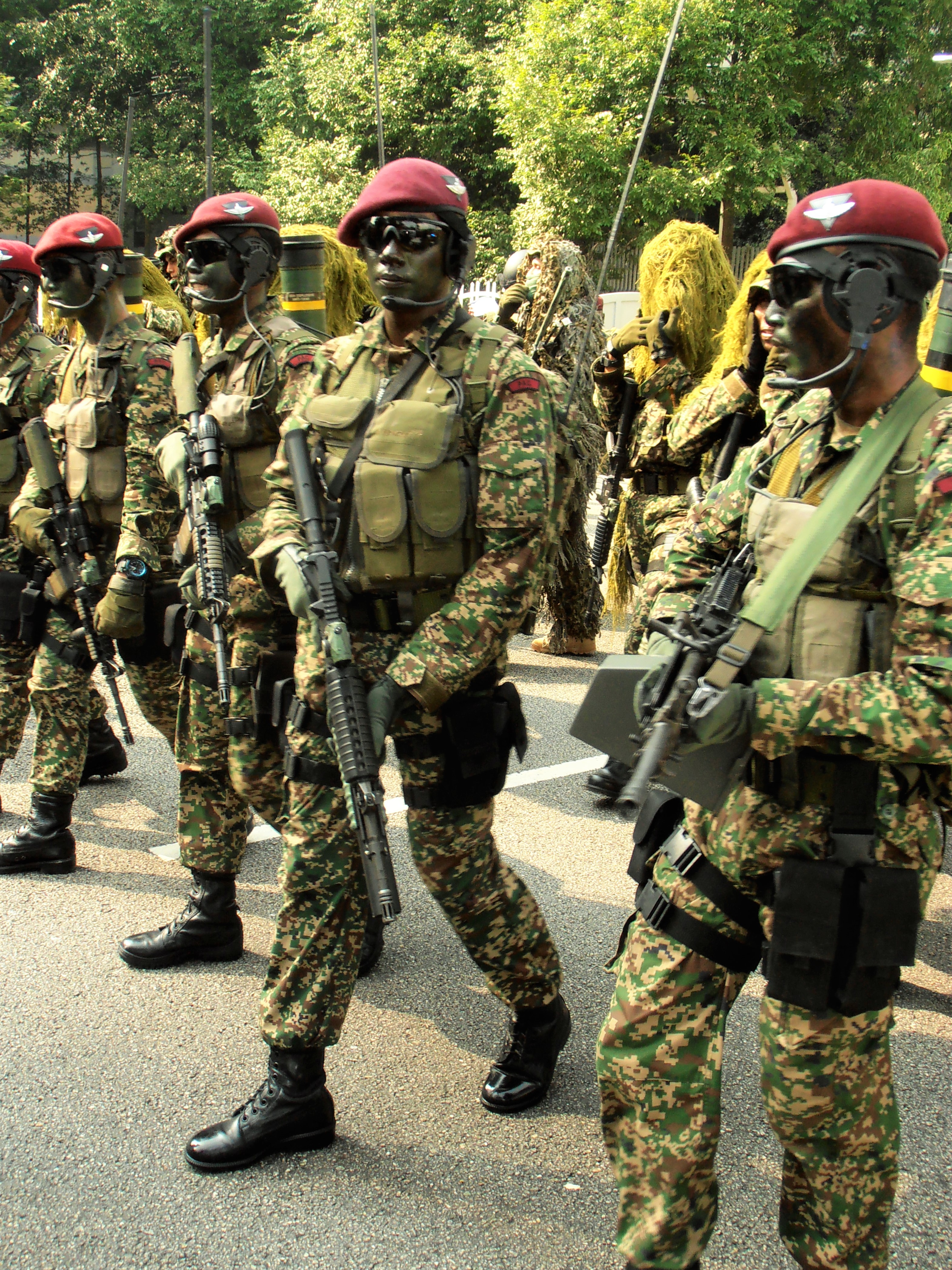 The soldiers of 10 Paratrooper Brigades of the Malaysian Army on standby during the celebrations of 59th Merdeka Day at the Merdeka Square on August 31, 2016 in Kuala Lumpur.